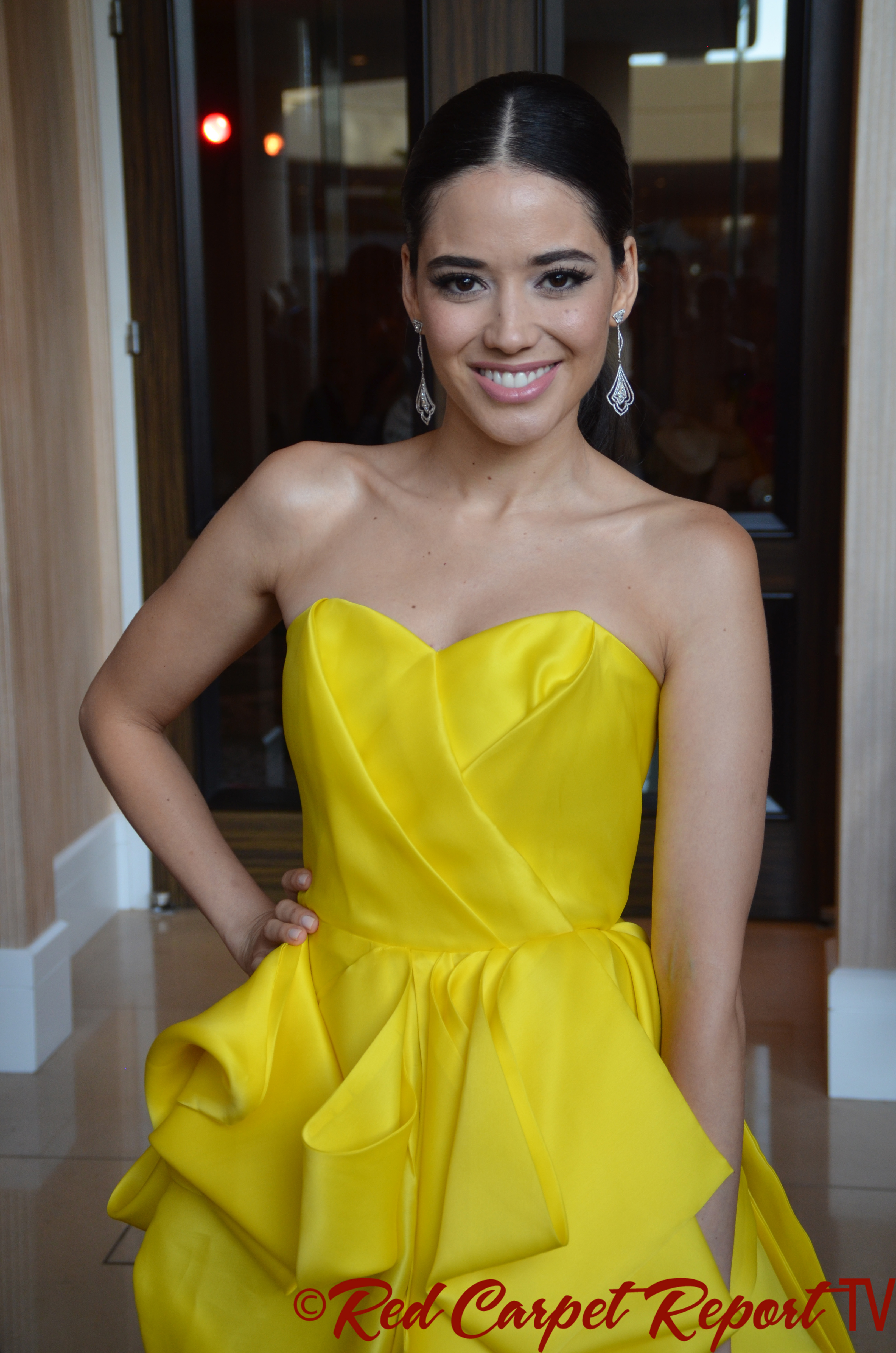 Actress Edy Ganem at the 29th Annual Imagen Awards Gala at the Beverly Hilton in Beverly Hills on August 1, 2014